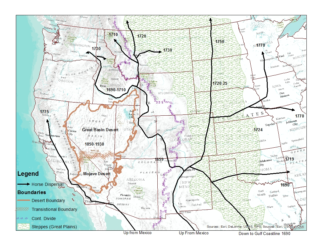 Map with facsimile of horse dispersal from a map at: Haines, Francis. "The Northward Spread of Horses Among the Plains Indians." American Anthropologist New Series, Vol. 40, No. 3 (Jul. - Sep., 1938), pp. 429-437 at p. 430 online version. Depictions of the Great Basin and Continental Divide from USGS hydrographic .shp files. Depiction of the Great Plains from this map